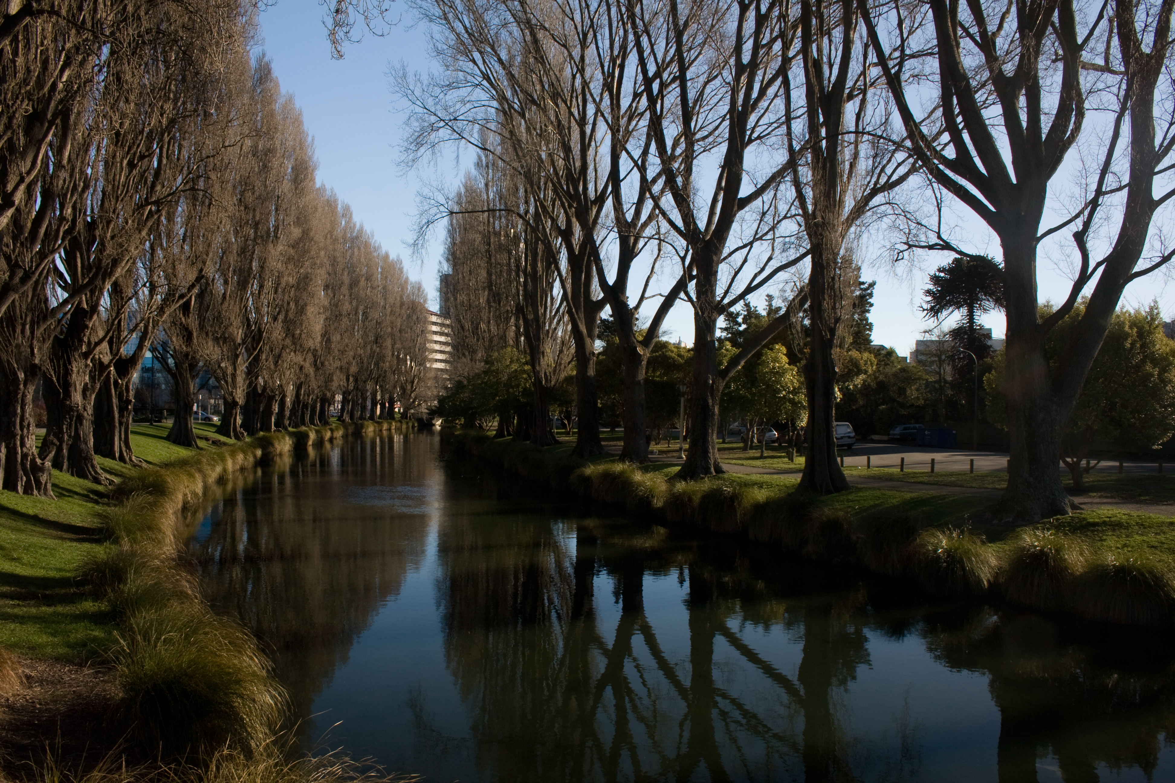 Looking west along the Avon River from the Madras Street bridge.